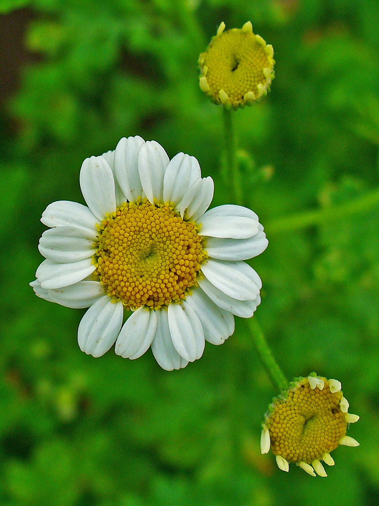 Tanacetum parthenium, Asteraceae, Feverfew, inflorescence.